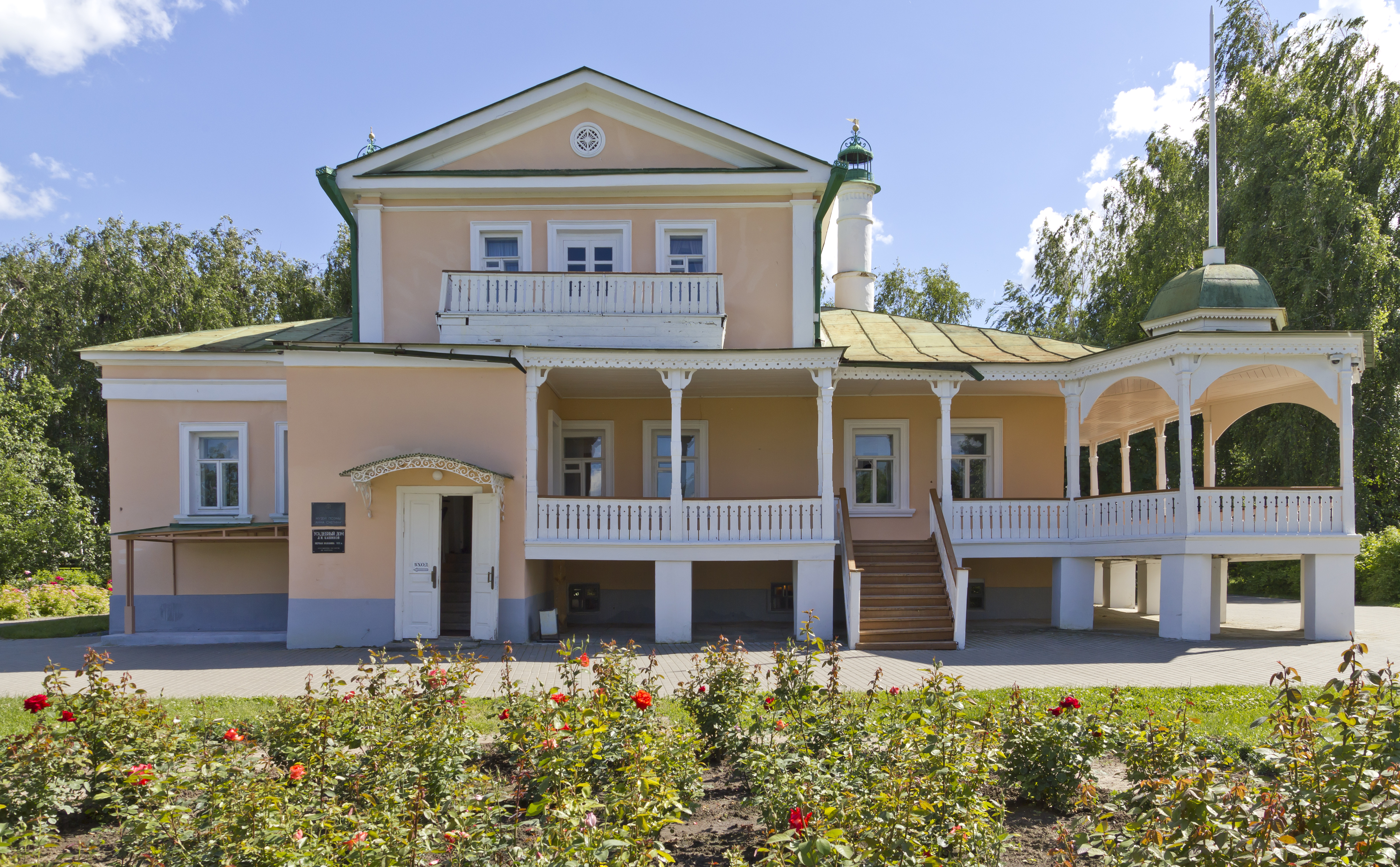 Former manor of L.I.Kashina in Konstantinovo village, Ryazan Oblast, Russia